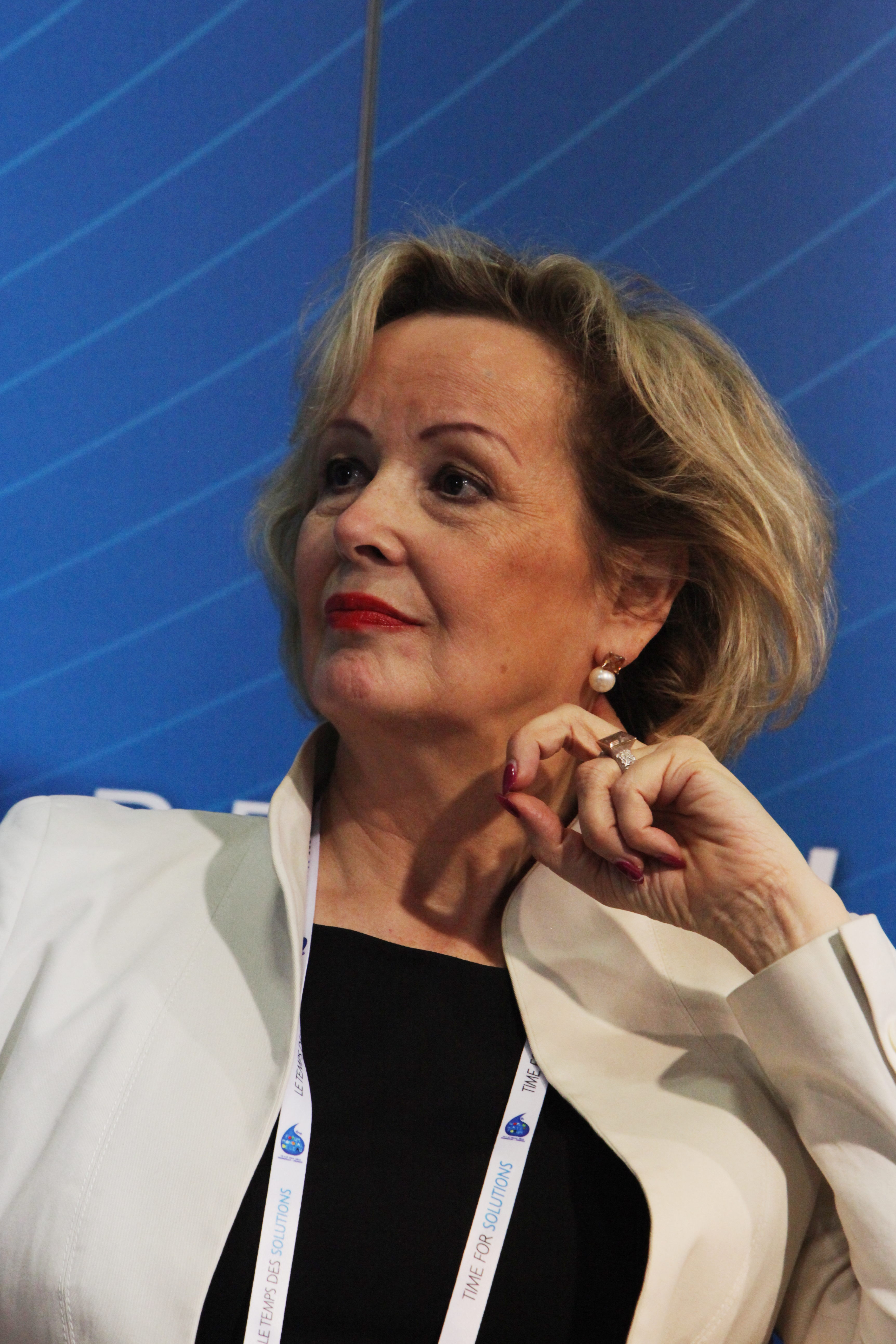 Gudrun Kopp at the 6th World Water Forum